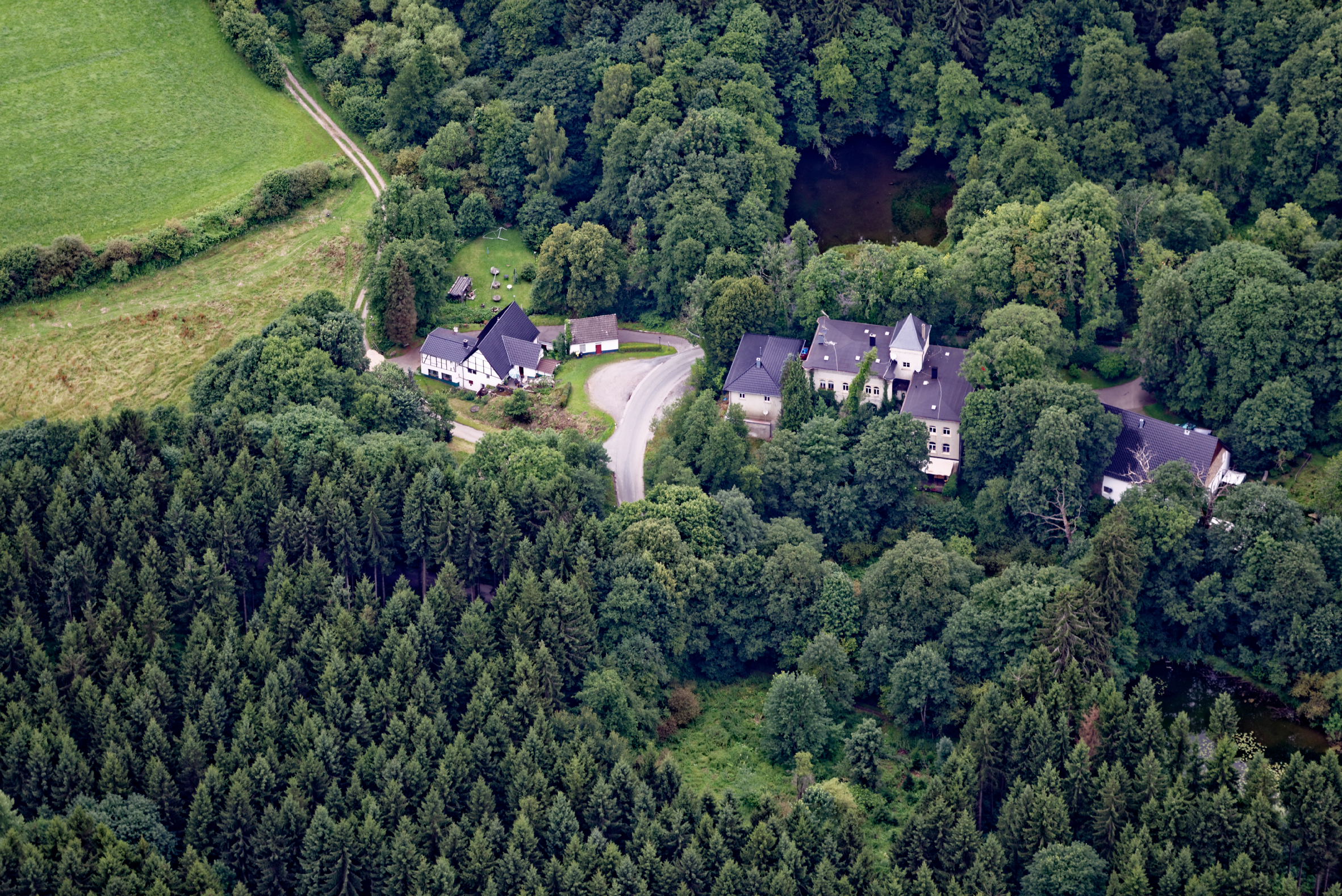 Schloss Oedenthal mit Oedenthaler Wassermühle The making of this document was supported by the Community-Budget of Wikimedia Germany.